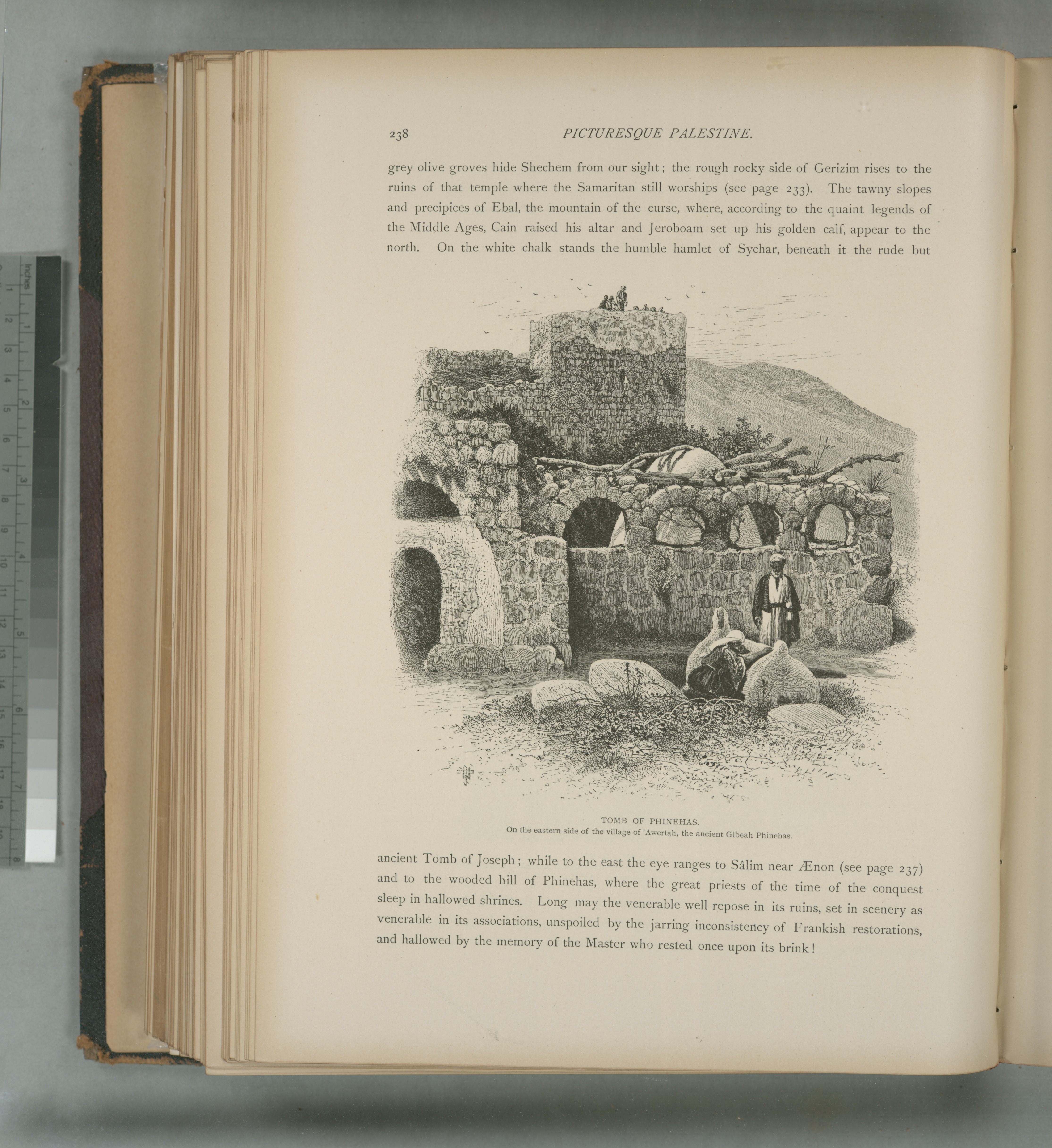 Colonel Wilson, ed.